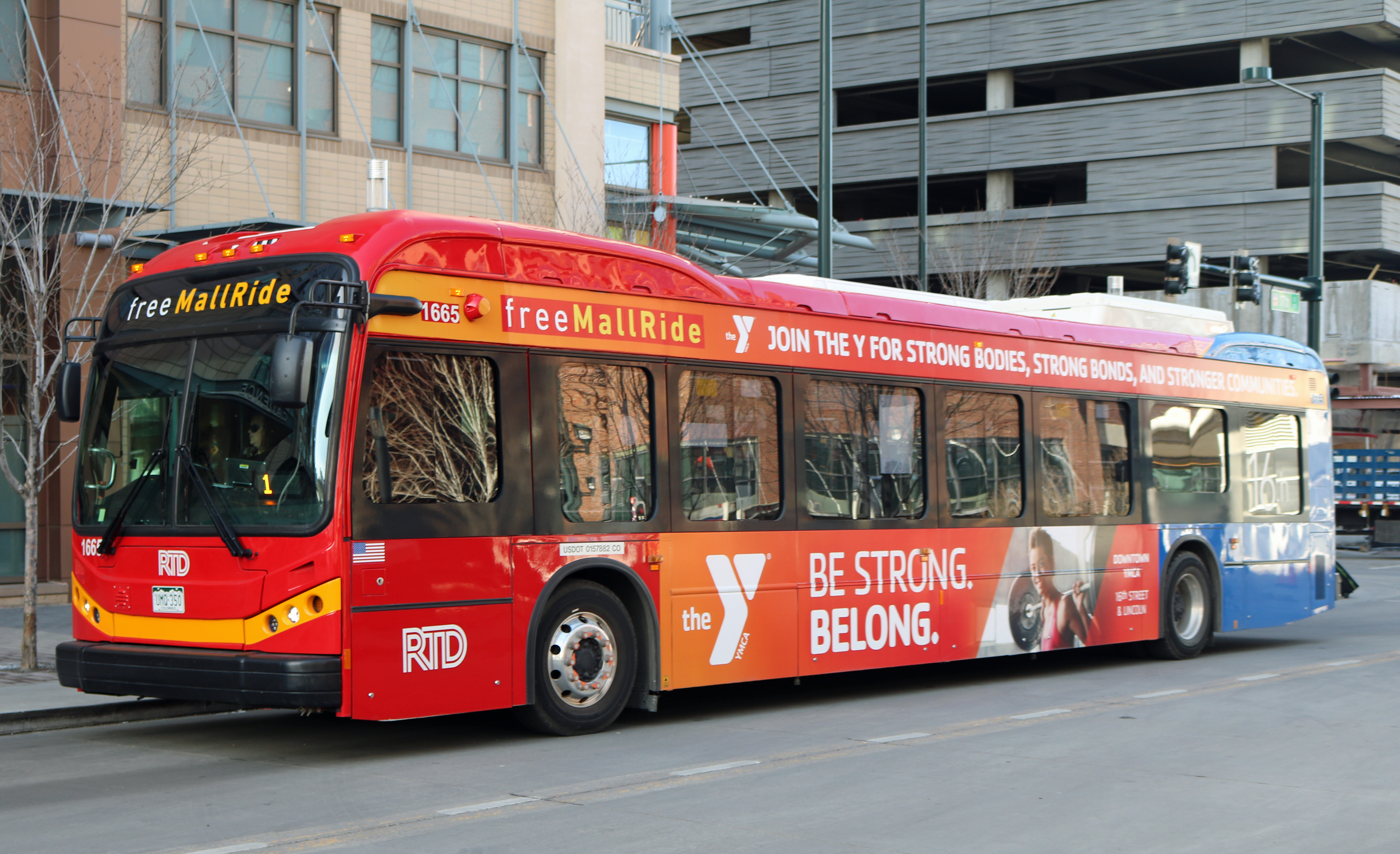 One of the Denver RTD Free MallRide busses, located here at its western terminus near Union Station.